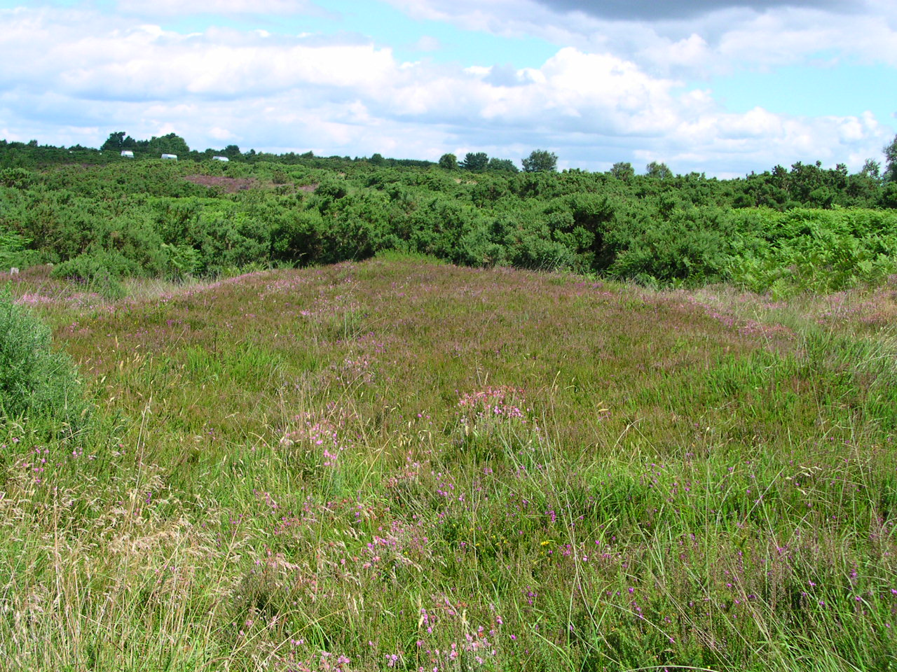 The agger of the London to Lewes Roman road on Ashdown Forest, East Sussex, England.